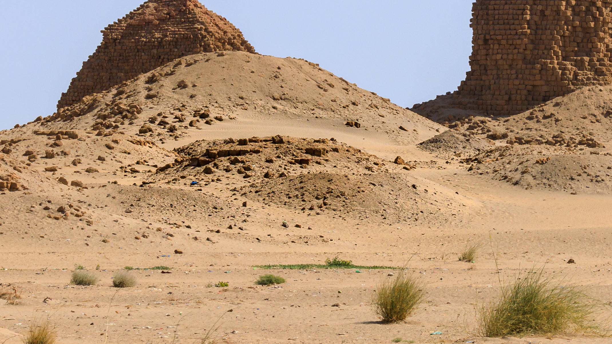 82 pyramids were counted in Nuri, royal necropolis of Napata, the capital of ancient Nubian Kingdom of Kush. 20 of them a standing still. Nuri 22 shall be the one of queen Amanimalil (Amanimalel, c. 620 BC) as George Reisner who excavated several pyramids assumed. Today it is hard to identify as a has-been-pyramid.